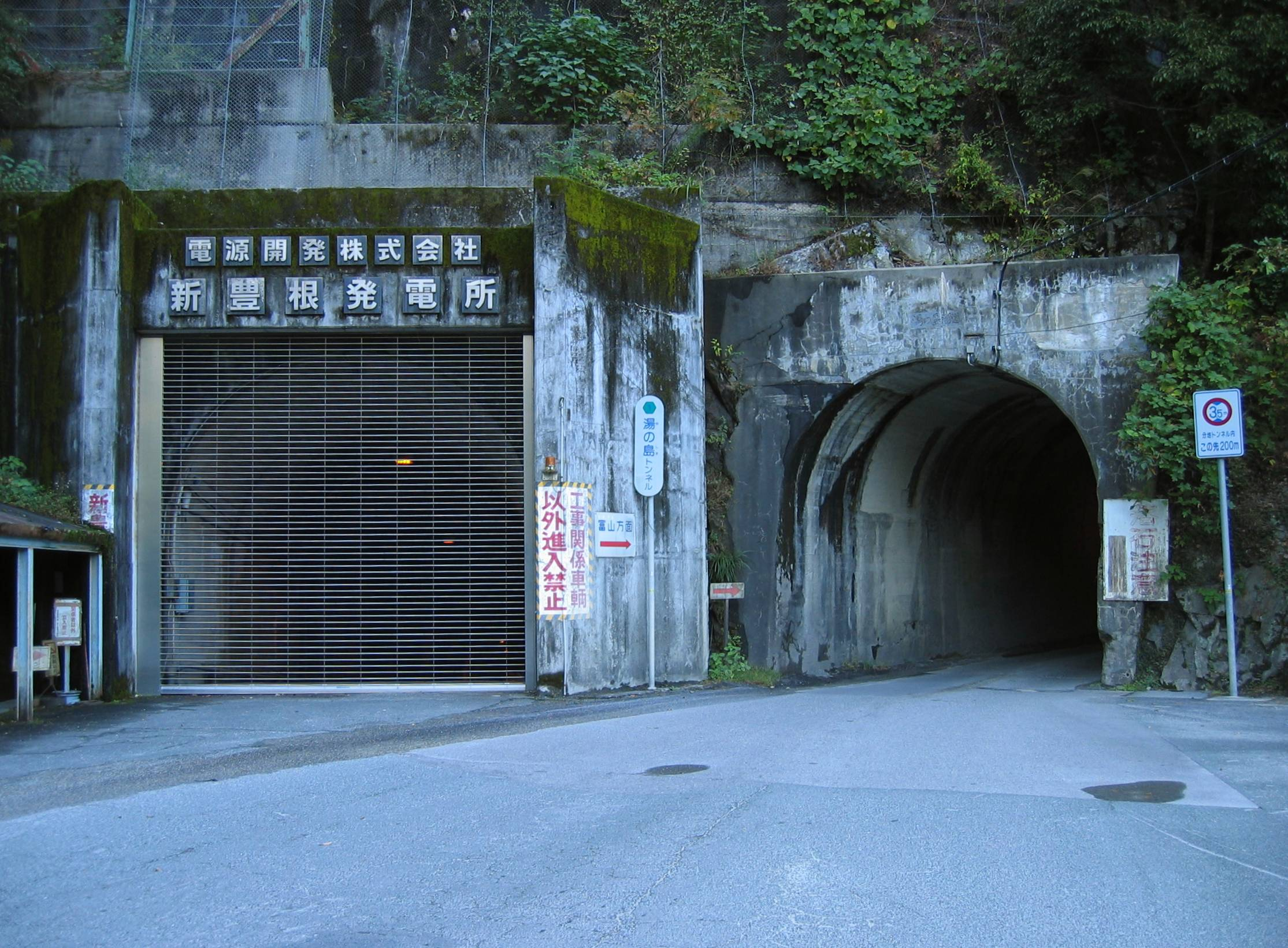 Shintoyone Dam (新豊根ダム) is a dam in Toyone village, Aichi prefecture, Japan.